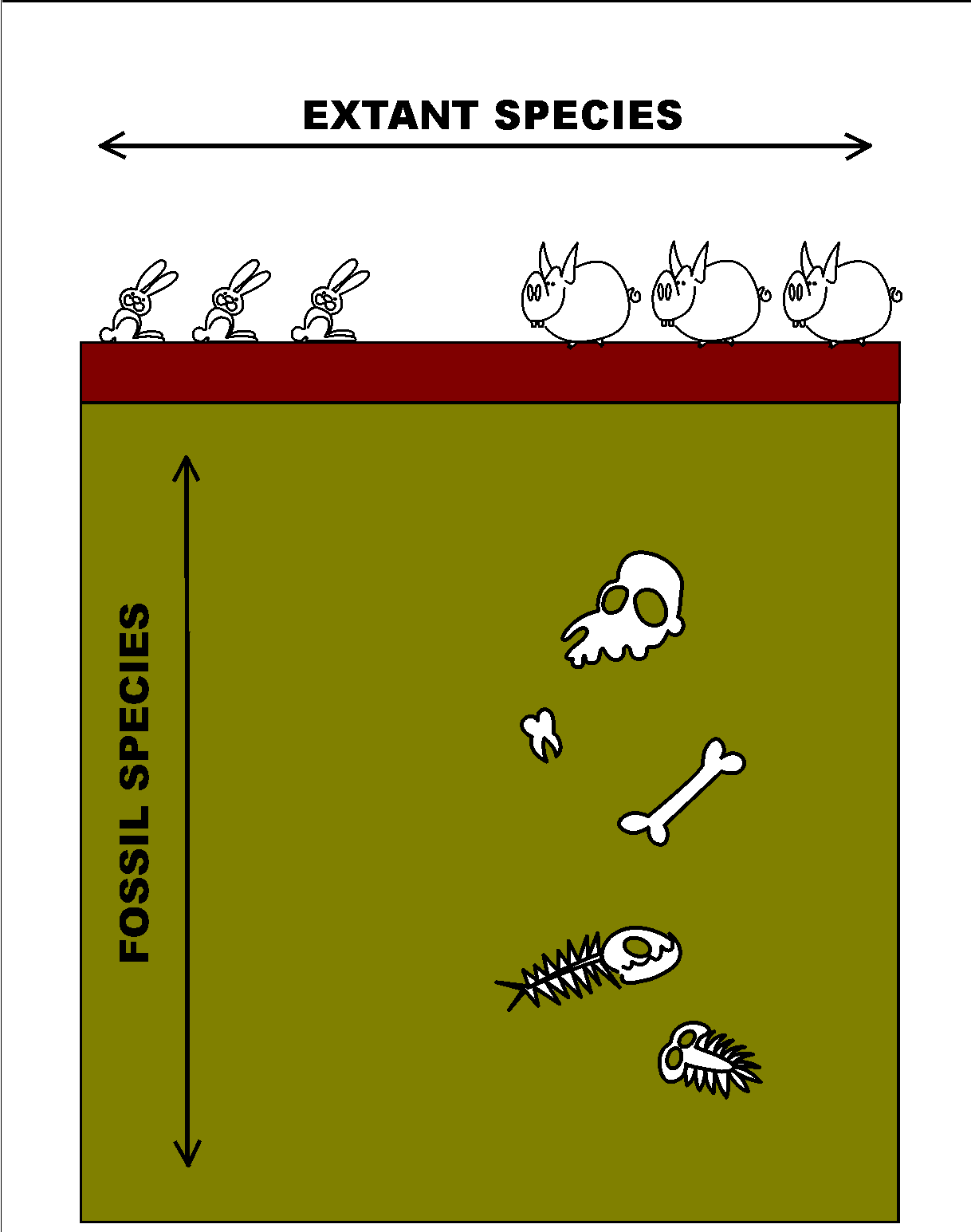 illustration for Koinophilia article